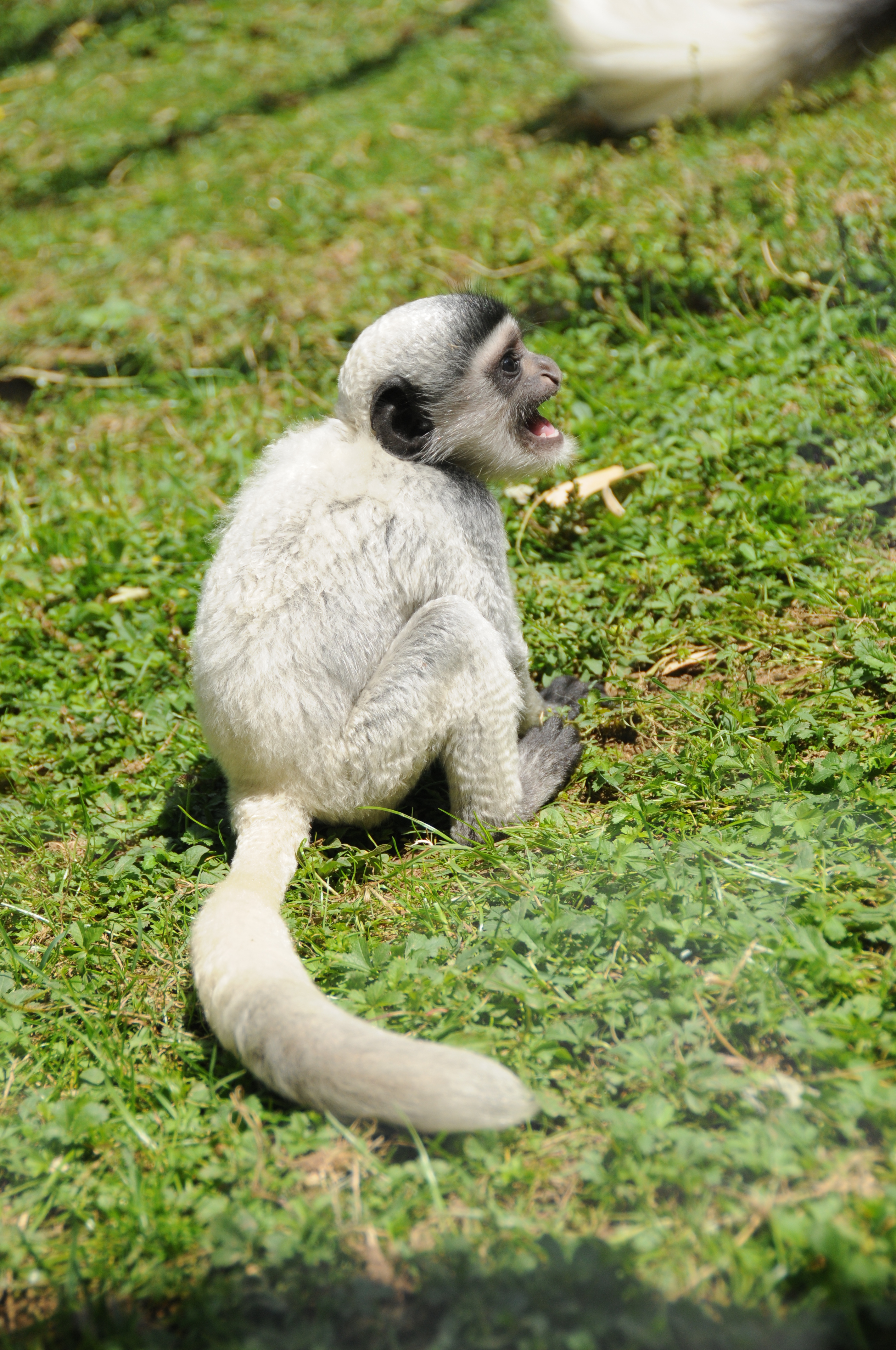 This photograph was taken with a Nikon D300 Citadelle de Besançon : Colobe guéréza (Colobus guereza) (zoo de la citadelle).